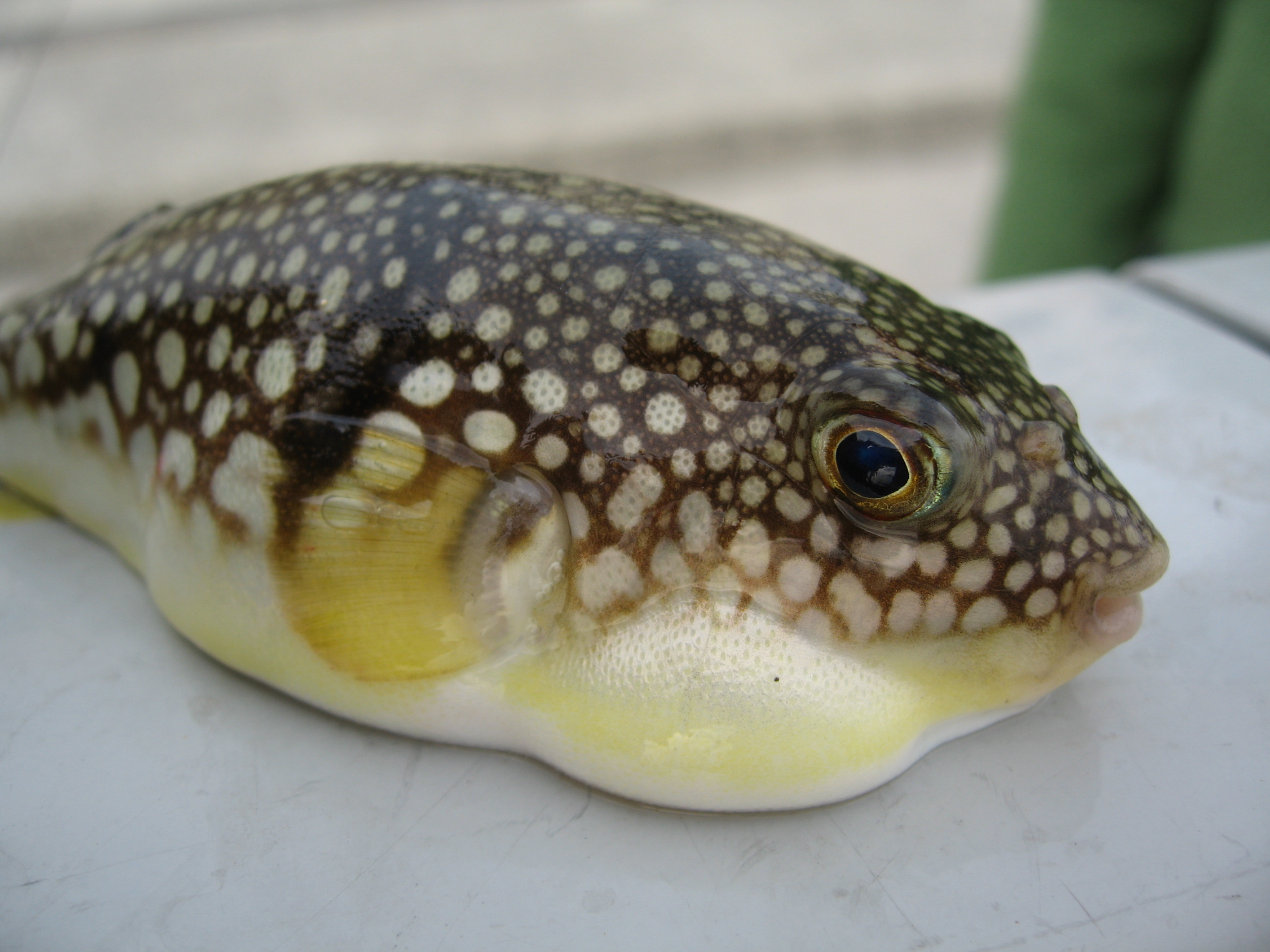 It was too small to be eaten so we put it back in the water. Anyway I'm not sure I'd have eaten it because it was so cute! Moreover you need a licence to cook fugus bcause pufferfish is lethally poisonous if prepared incorrectly.